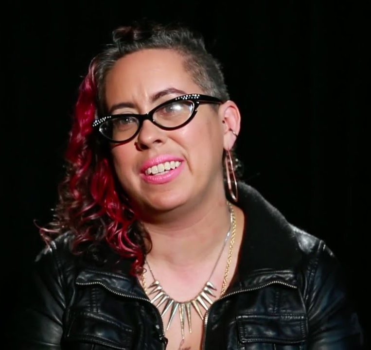 Safety: every law enforcement officer and every politician tells us that they're for it. And yet for many, police are a problem in their communities, and today's policies are only making things worse. If what we're doing isn't the answer. What is? We explore this issue, and what we all need to learn from the disability justice movement, with this week's guest. Leah Lakshmi Piepzna-Samarasinha is a queer disabled writer, performer, poet, healer and teacher, inspired by poets and authors June Jordan, Suheir Hammad and Audre Lorde. She is the author of several books of poetry, including Consensual Genocide and the Lambda-award winning Love Cake. She has a new book of poetry called Bodymap, and a memoir, Dirty River. out this year. She also co-founded the performance group Mangos With Chili and is an editor of The Revolution Starts At Home: Confronting Intimate Violence in Activist Communities, a book that grapples with the difficult idea of addressing violence without police. All this, and Laura discusses the roads less traveled.